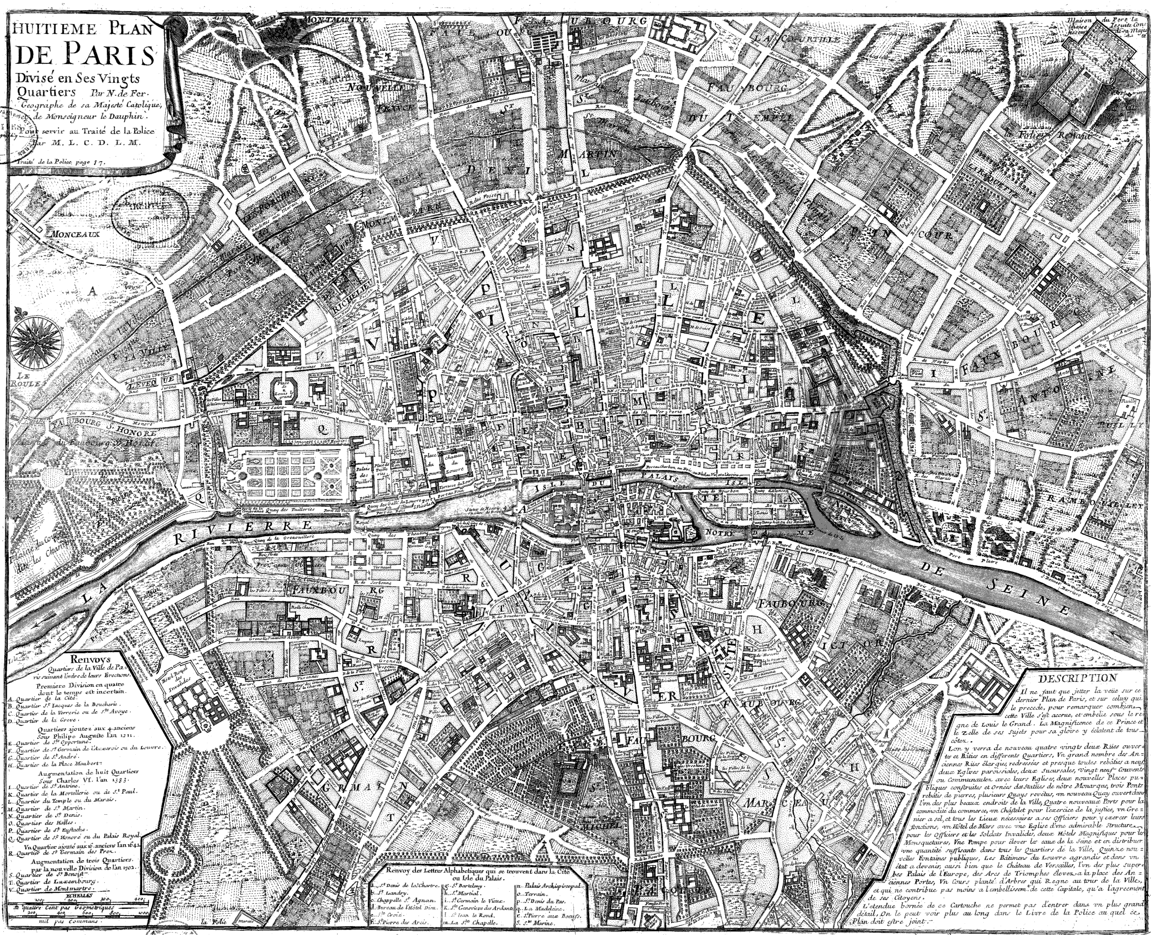 Map of Paris in 1705, one of eight chronological maps of Paris from Traité de la police